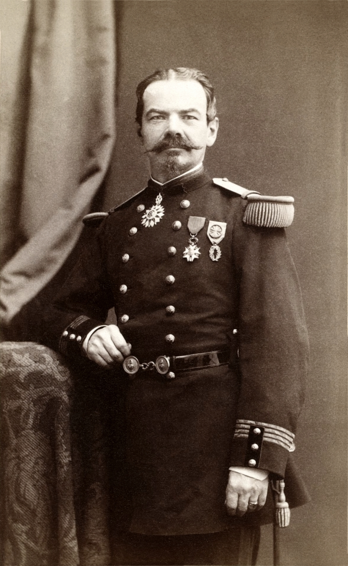 Albert de Rochas d'Aiglun (1837-1914), french officer and administrator, writer, and specialist of paranormal phenomena.